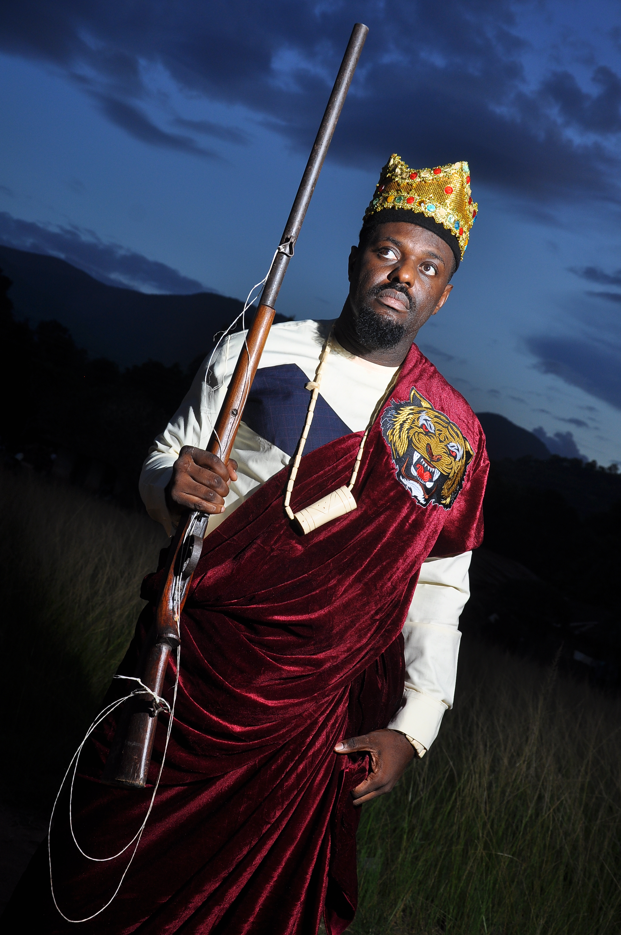 Jim Iyke in Omambala set